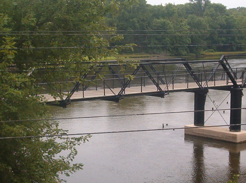 The New Richmond Swing Bridge over the Kalamazoo River in Manlius Township, Michigan, United States, is viewed here from an adjacent railroad bridge. The bridge is listed on the US National Register of Historic Places (NRHP) under its historic name Fifty-Seventh Street Bridge. NRHP reference number 98000273